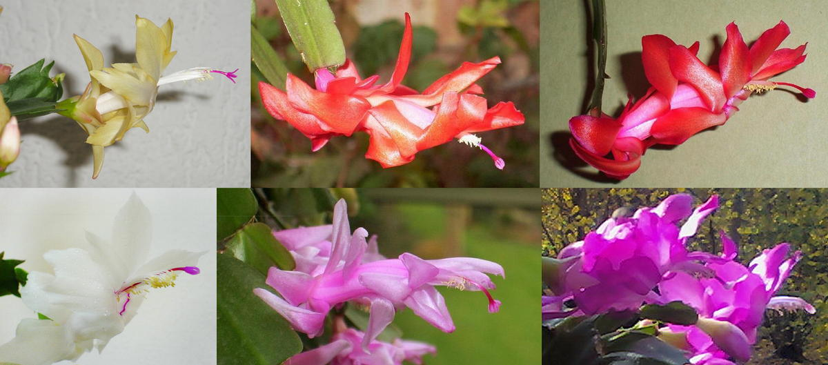 Composite image of flowers of cultivars of Schlumbergera to show variation in colour